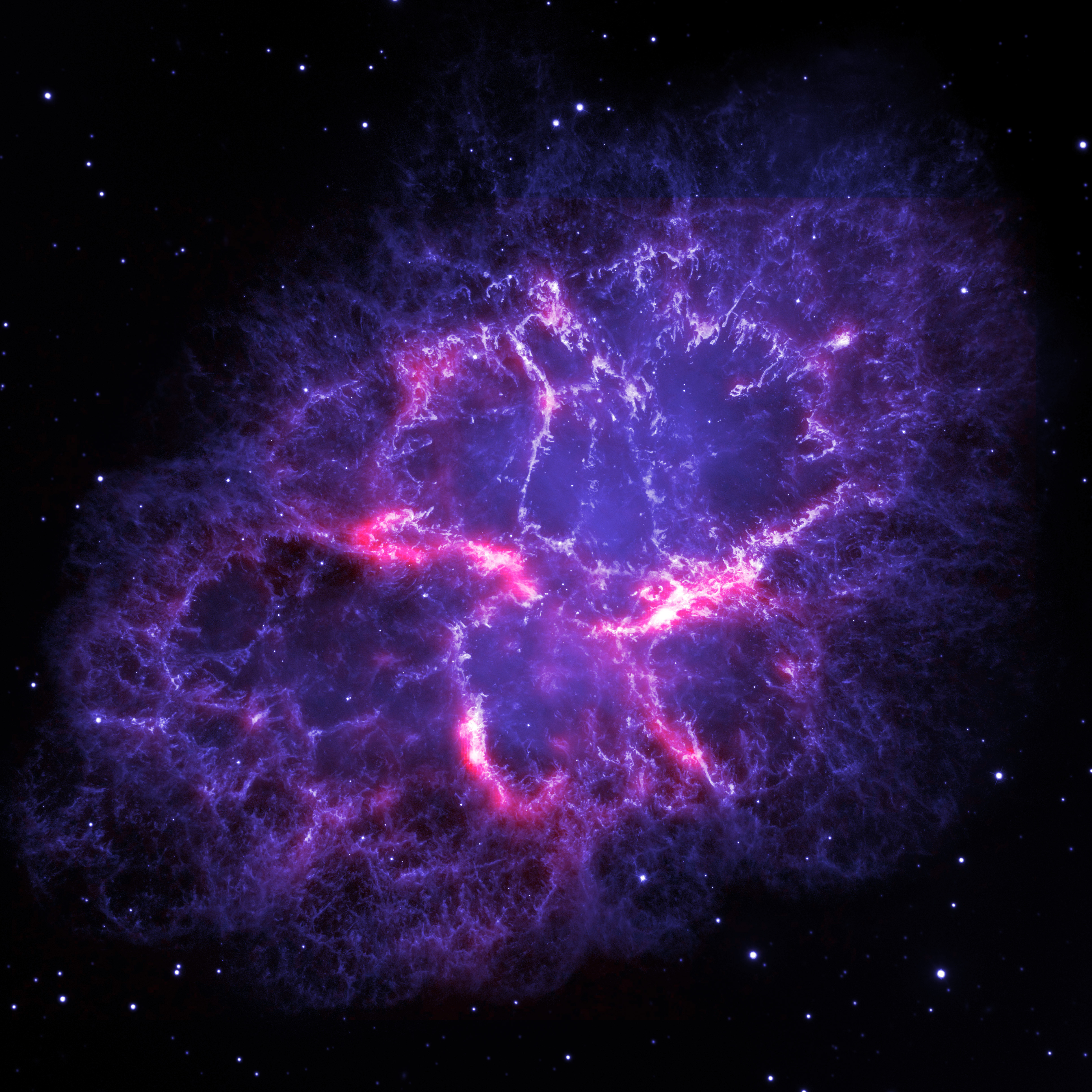 This image shows a composite view of the Crab nebula, an iconic supernova remnant in our Milky Way galaxy, as viewed by the Herschel Space Observatory and the Hubble Space Telescope. Herschel is a European Space Agency (ESA) mission with important NASA contributions, and Hubble is a NASA mission with important ESA contributions. A wispy and filamentary cloud of gas and dust, the Crab nebula is the remnant of a supernova explosion that was observed by Chinese astronomers in the year 1054. The image combines Hubble's view of the nebula at visible wavelengths, obtained using three different filters sensitive to the emission from oxygen and sulphur ions and is shown here in blue. Herschel's far-infrared image reveals the emission from dust in the nebula and is shown here in red. While studying the dust content of the Crab nebula with Herschel, a team of astronomers have detected emission lines from argon hydride, a molecular ion containing the noble gas argon. This is the first detection of a noble-gas based compound in space. The Herschel image is based on data taken with the Photoconductor Array Camera and Spectrometer (PACS) instrument at a wavelength of 70 microns; the Hubble image is based on archival data from the Wide Field and Planetary Camera 2 (WFPC2).